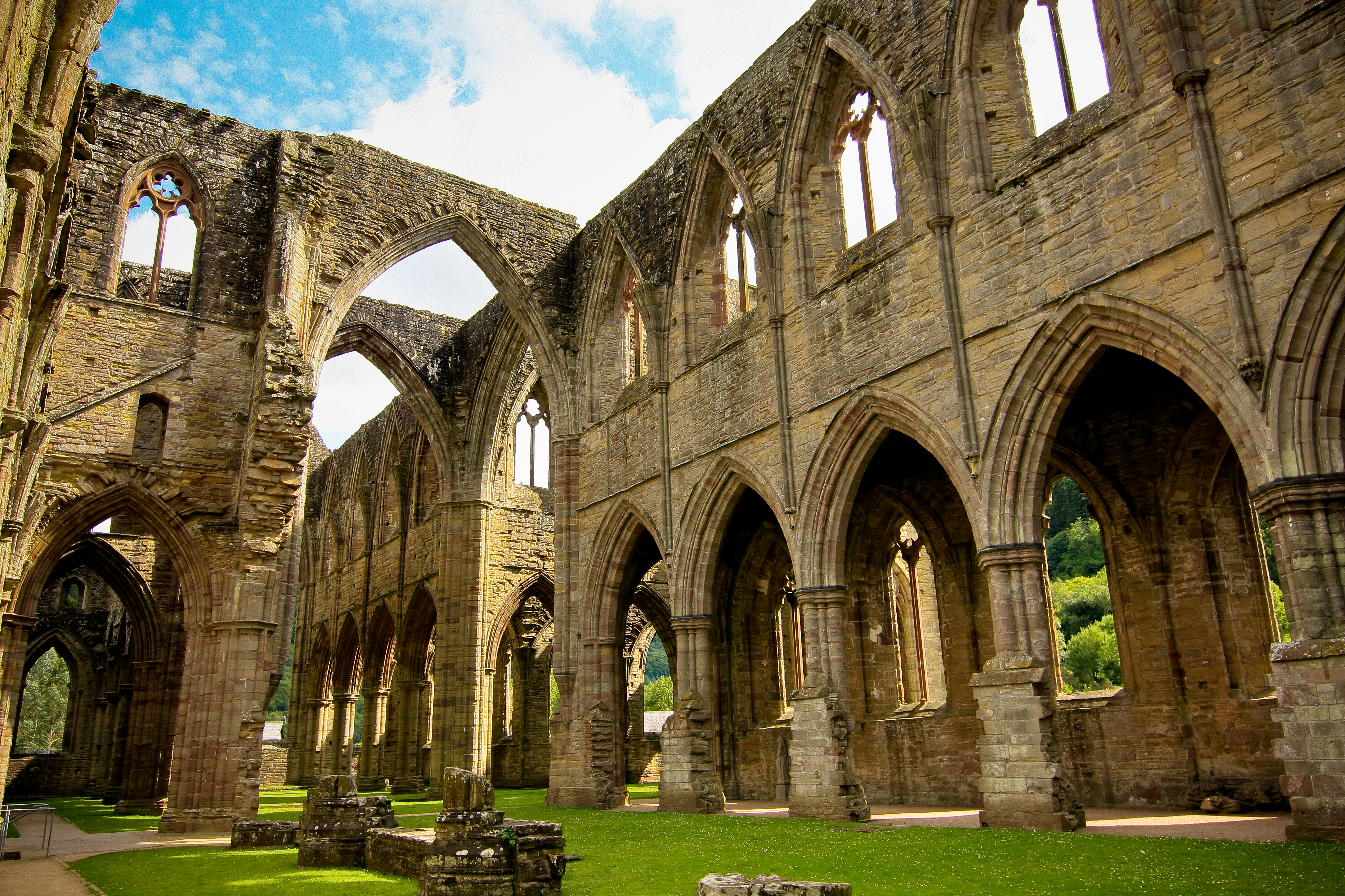 Tinturn Abbey